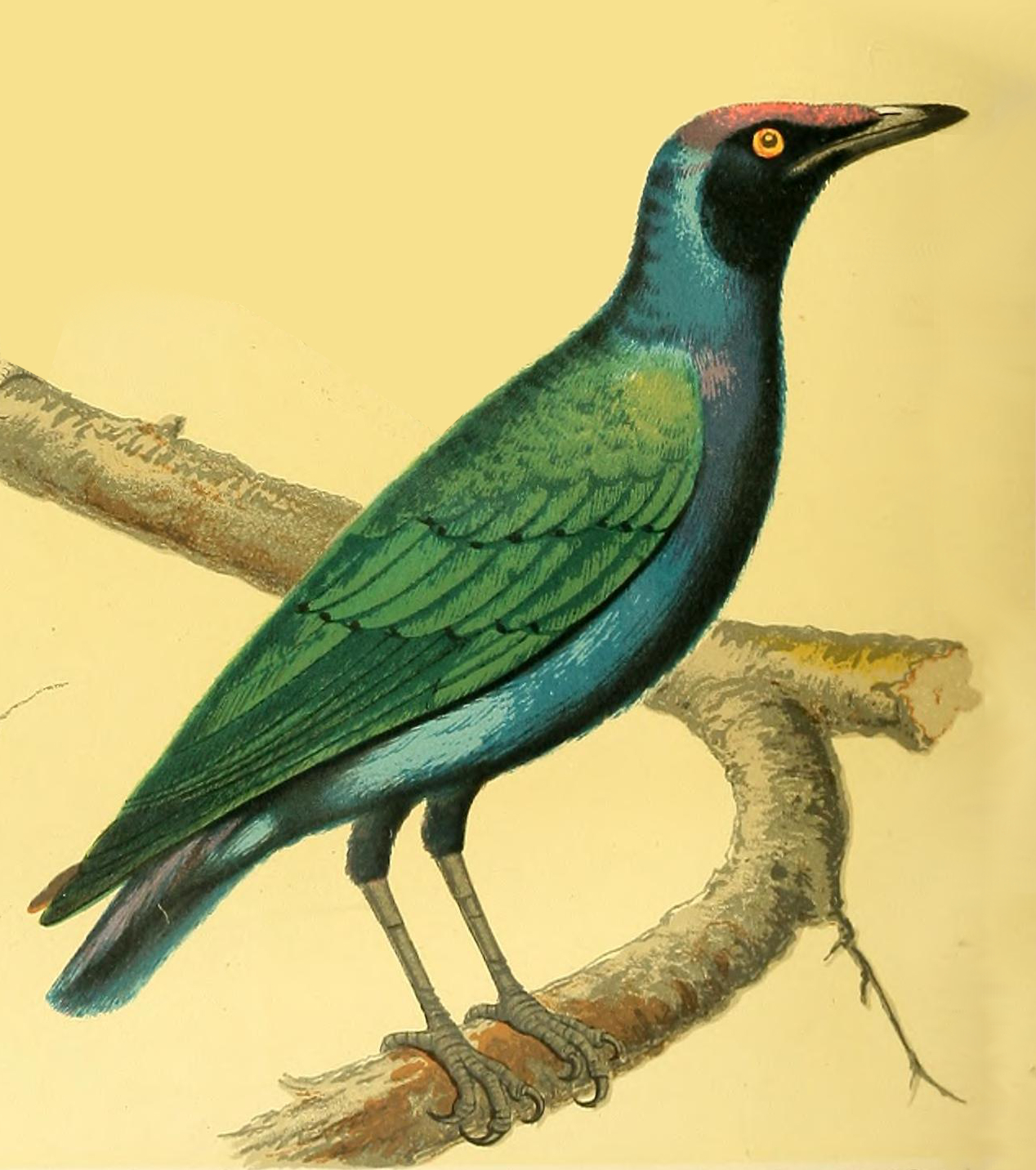 Chromolithograph from W.Blakston, W.Swayzland, A.Wiener: Canaries and Cage Birds. Cassell, London 1878. Purple-headed Glossy-starling (Lamprotornis purpureiceps)